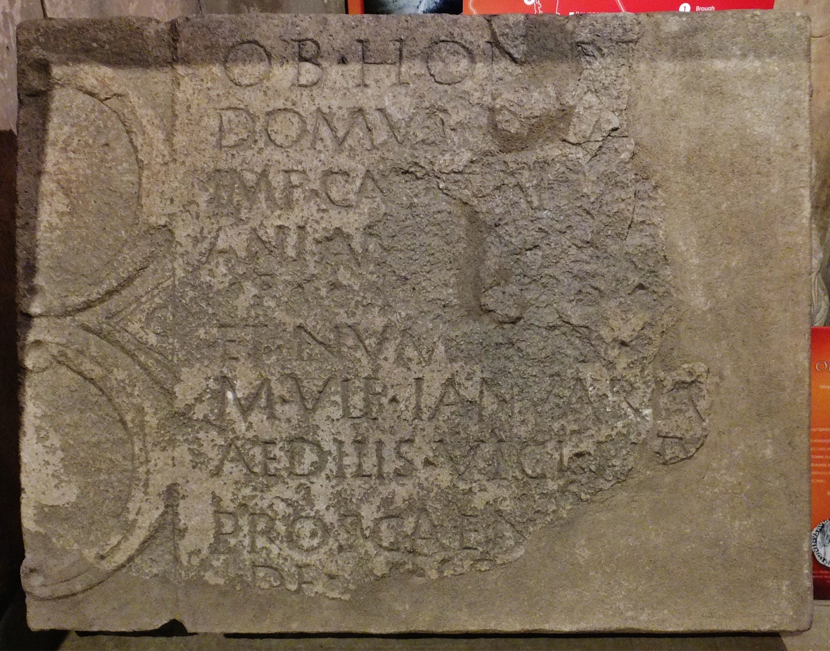 High Street, Kingston upon Hull, East Riding of Yorkshire, England.Dedication stone of the Roman theatre in Petuaria (now Brough) by Marcus Ulpius Ianuarius, Magistrate, ca. 140 CE.